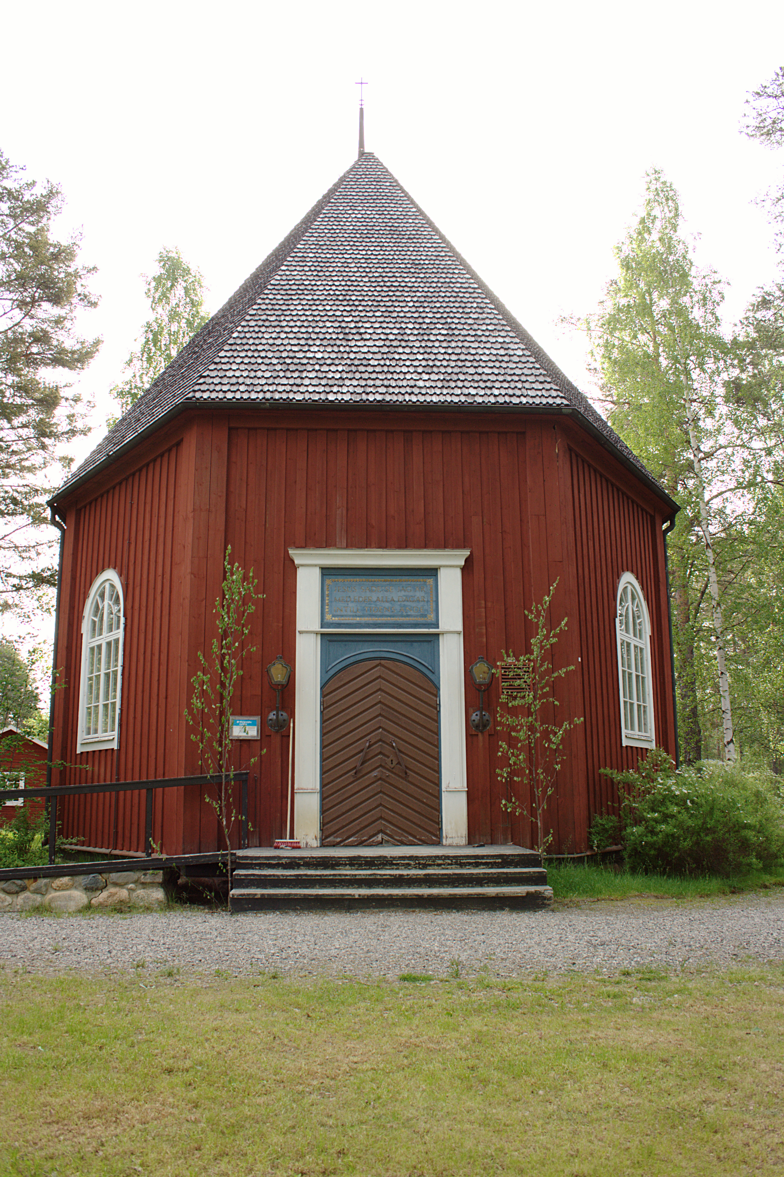 Margareta Church on "Old Site" in Lycksele